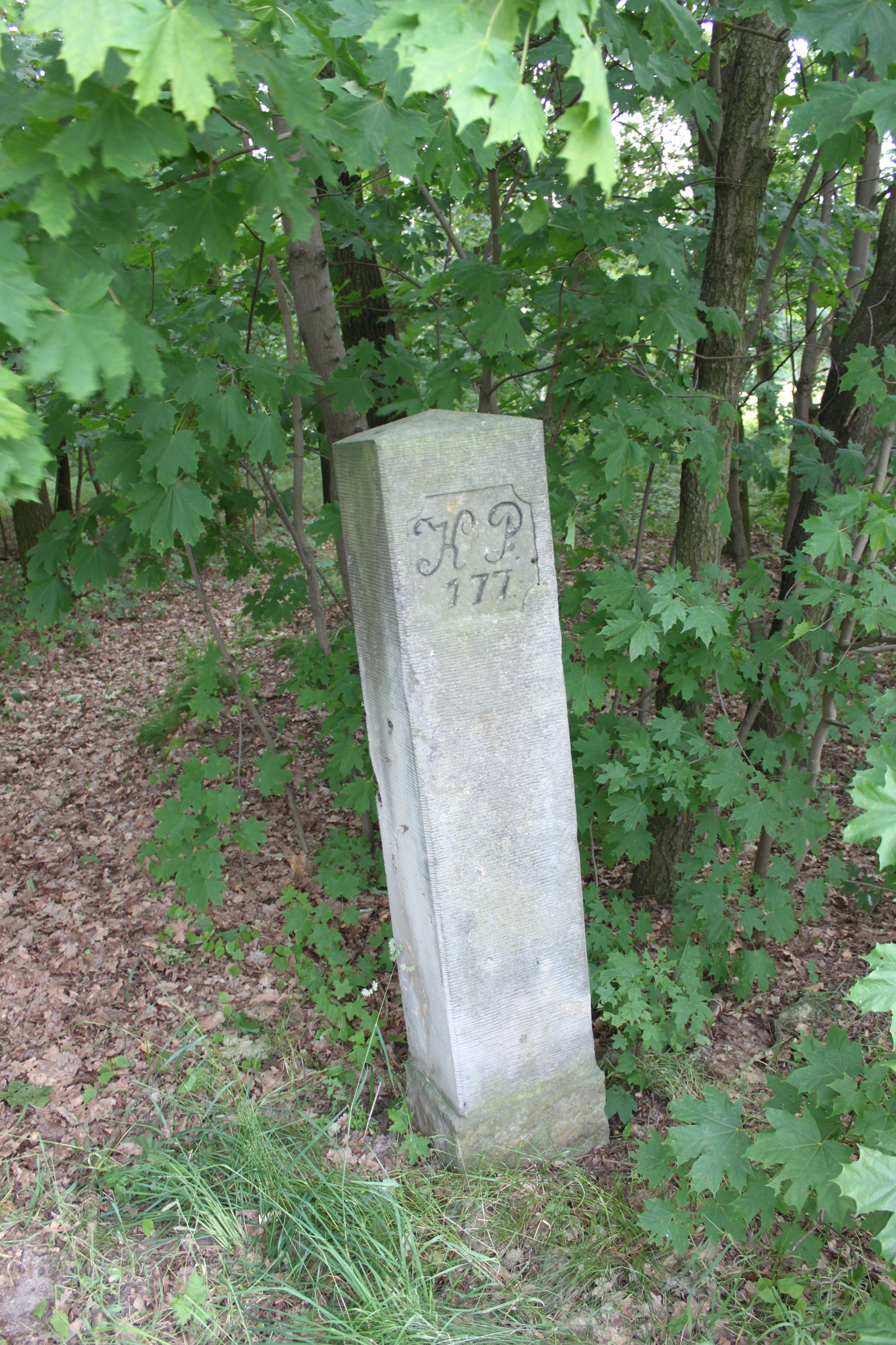 Boundary stone between Prussia and Saxony